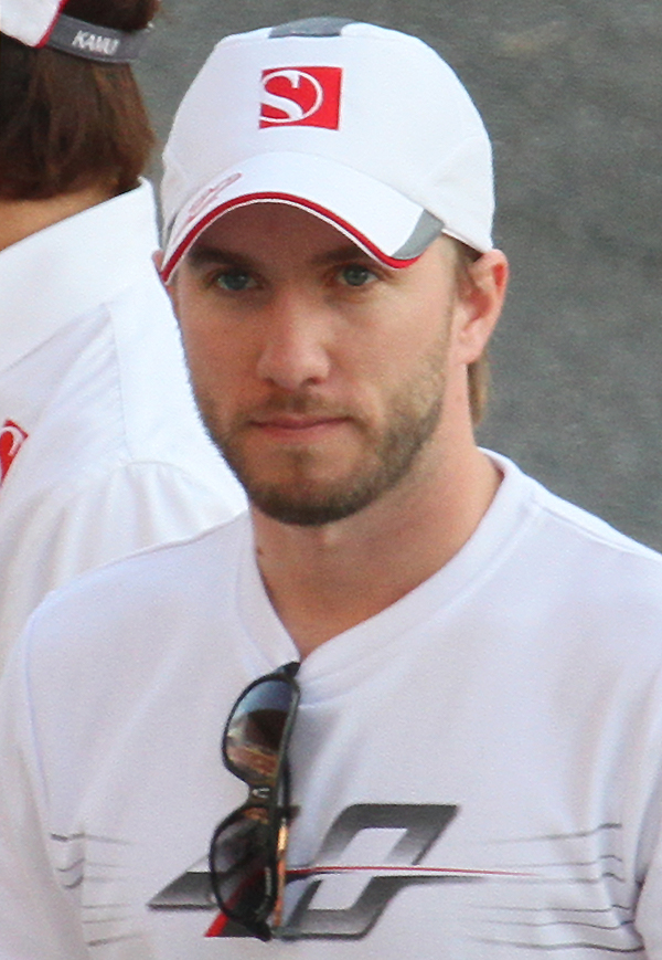 Formula One 2010 Rd.16 Japanese GP: Nick Heidfeld (BMW Sauber) at autograph session on Thursday.